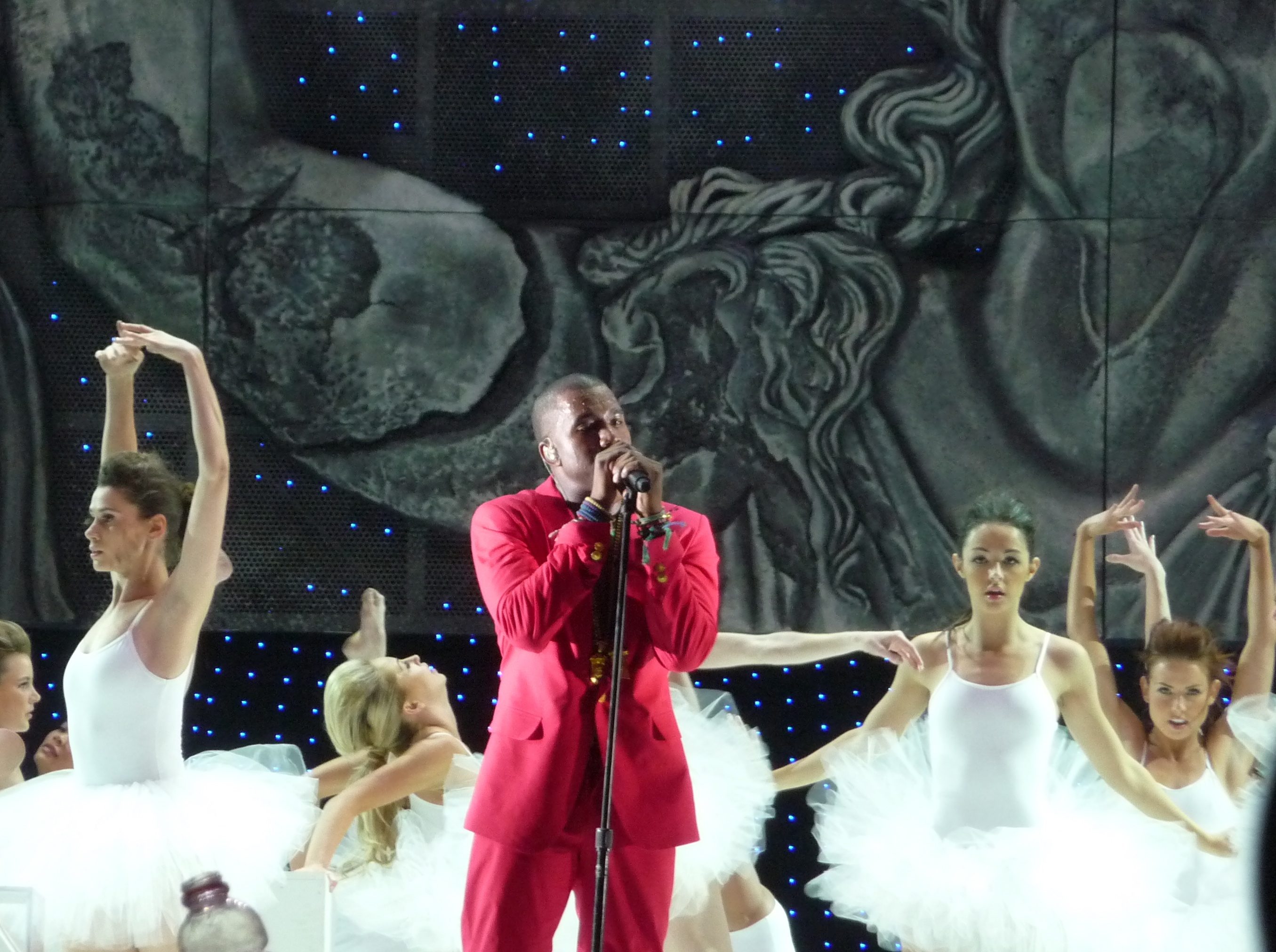 Kanye West performing the song "Runaway" Coachella on April 17, 2011 in Indio, California.